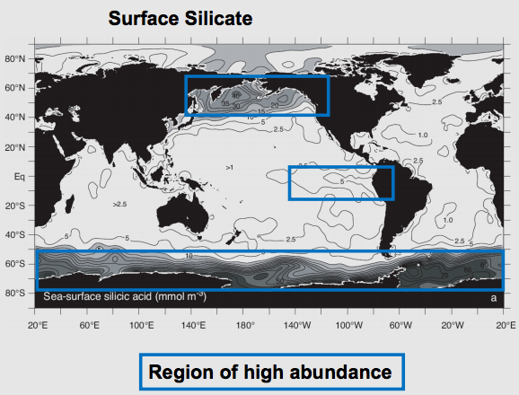 Own work